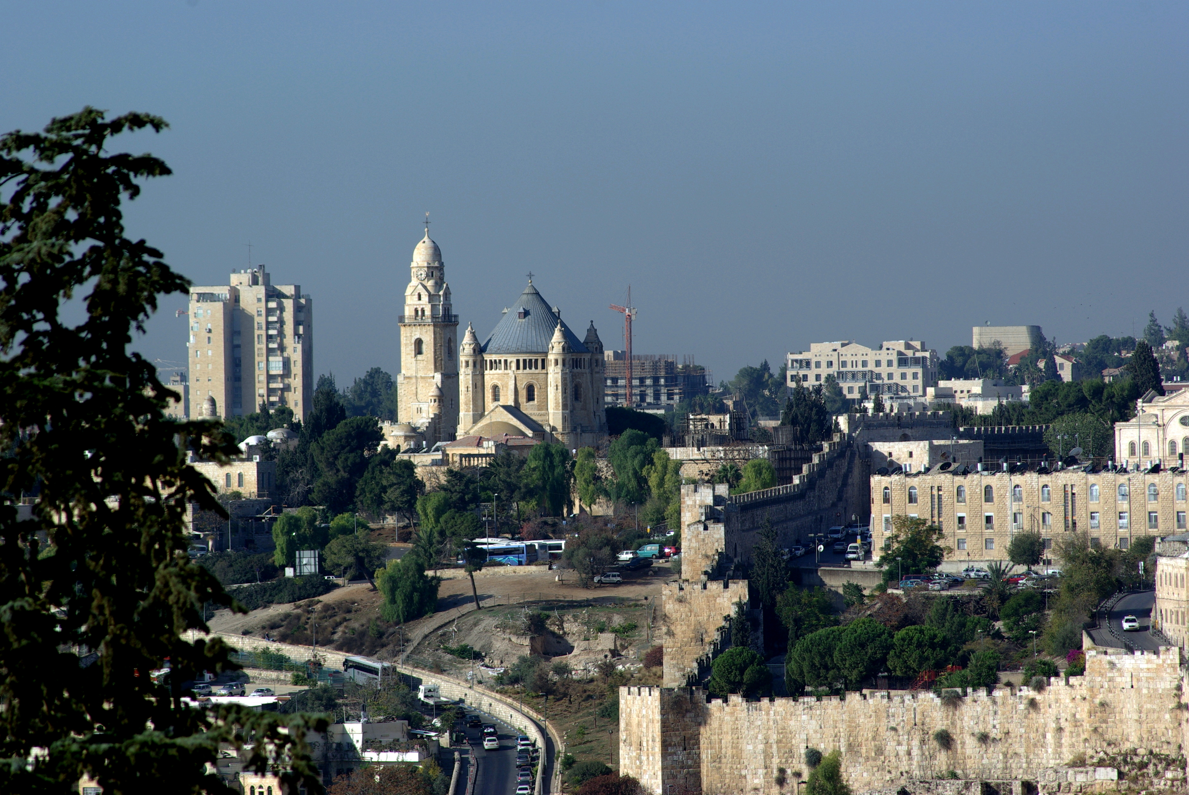 Jerusalem, Dormitio church from the Mount of Olives